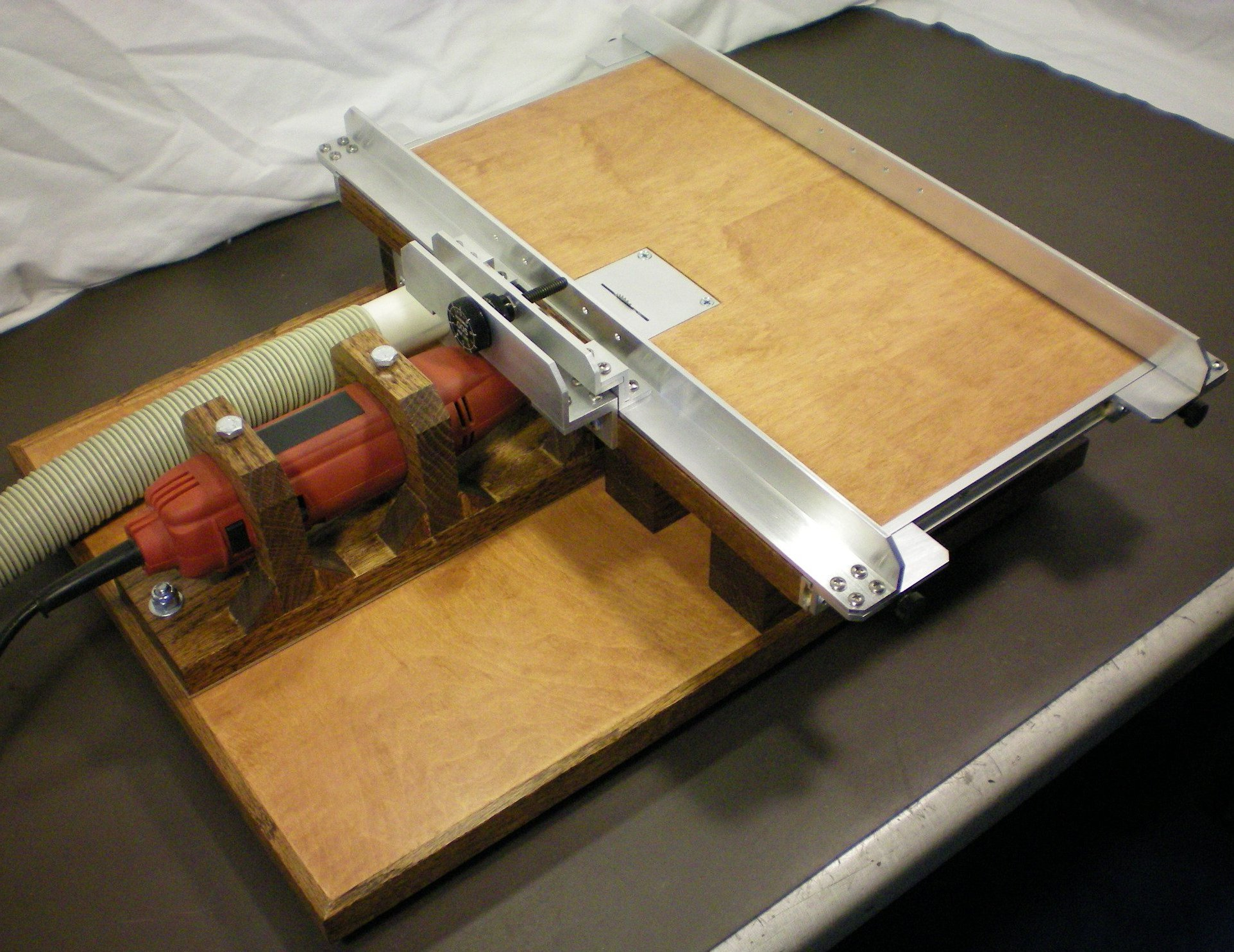 A 1-inch (25 mm) micro table saw designed specifically for cutting very small pieces of 1/8 inch (3mm) acrylic. The left fence has a dial adjust with a resolution of 0.001 inch (0.025 mm) for a maximum width cut of 1-1/16 inch (27 mm). The right fence is manually adjustable with a maximum cut width of 6-5/8 inches (168 mm). A "wind-tunnel" shaped vacuum channel under the table provides blade cooling/debris removal. With a blade speed of up to 20,000 RPM.